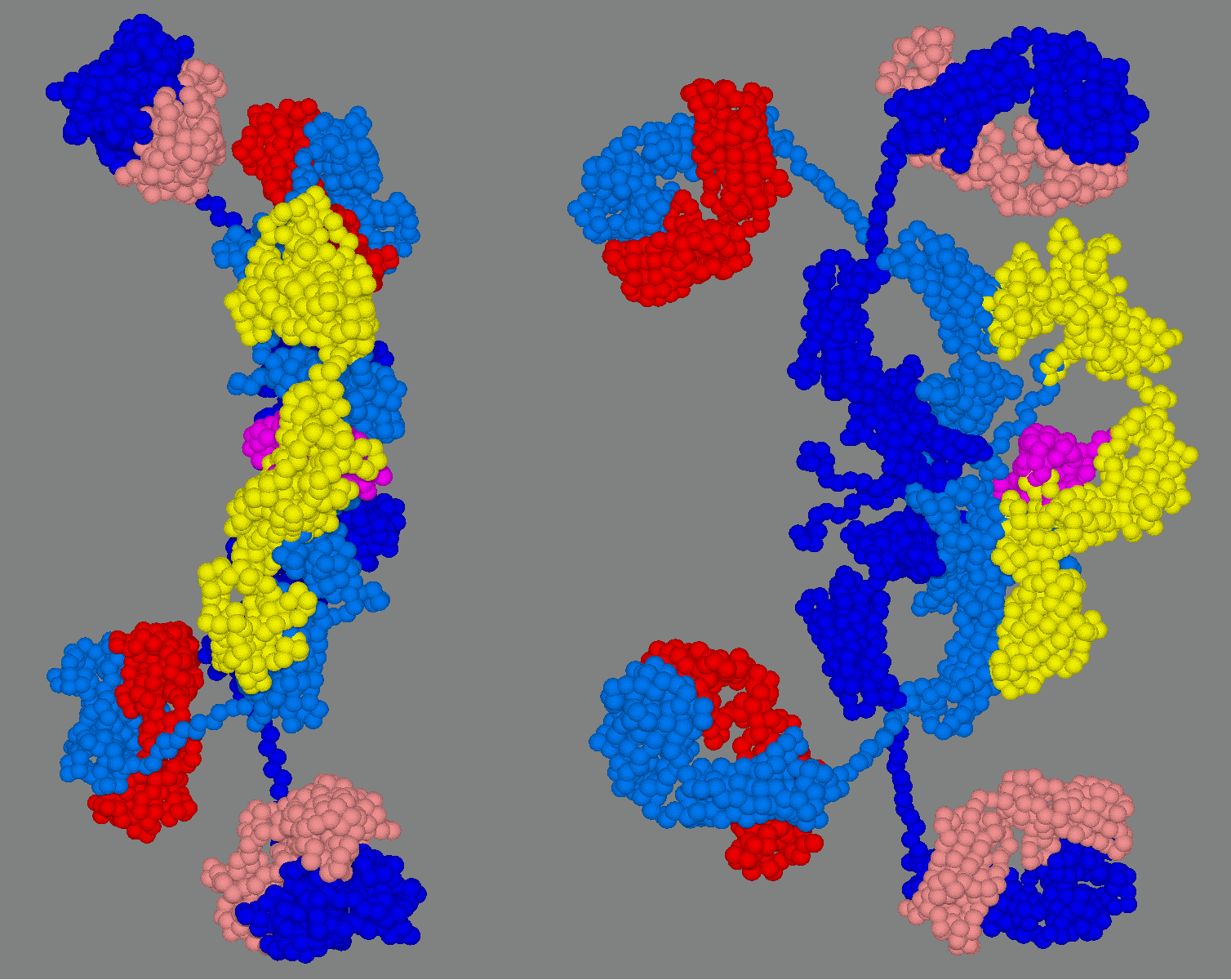 Two views, one rotated 90 degrees with respect to the other, of the amino acid chains comprising secretory IgA1. Colors are: H-chains (blue and light blue), L-chains (red and light red), J-chain (magenta) and the secretory component (yellow). Coordinates of each backbone carbon atom were derived from PDB entry 3CHN (Bonner A, Almogren A, Furtado PB, Kerr MA, Perkins SJ. Location of secretory component on the Fc edge of dimeric IgA1 reveals insight into the role of secretory IgA1 in mucosal immunity. Mucosal Immunol. 2009 Jan;2(1):74-84. PubMed PMID: 19079336). Created using PyMol and POV-Ray.